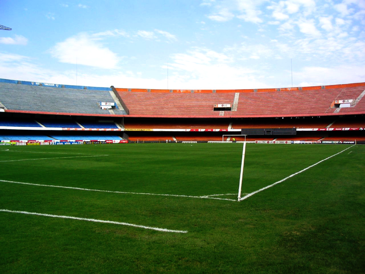 inside photo of the Cícero Pompeu de Toledo stadium, known as Morumbi.